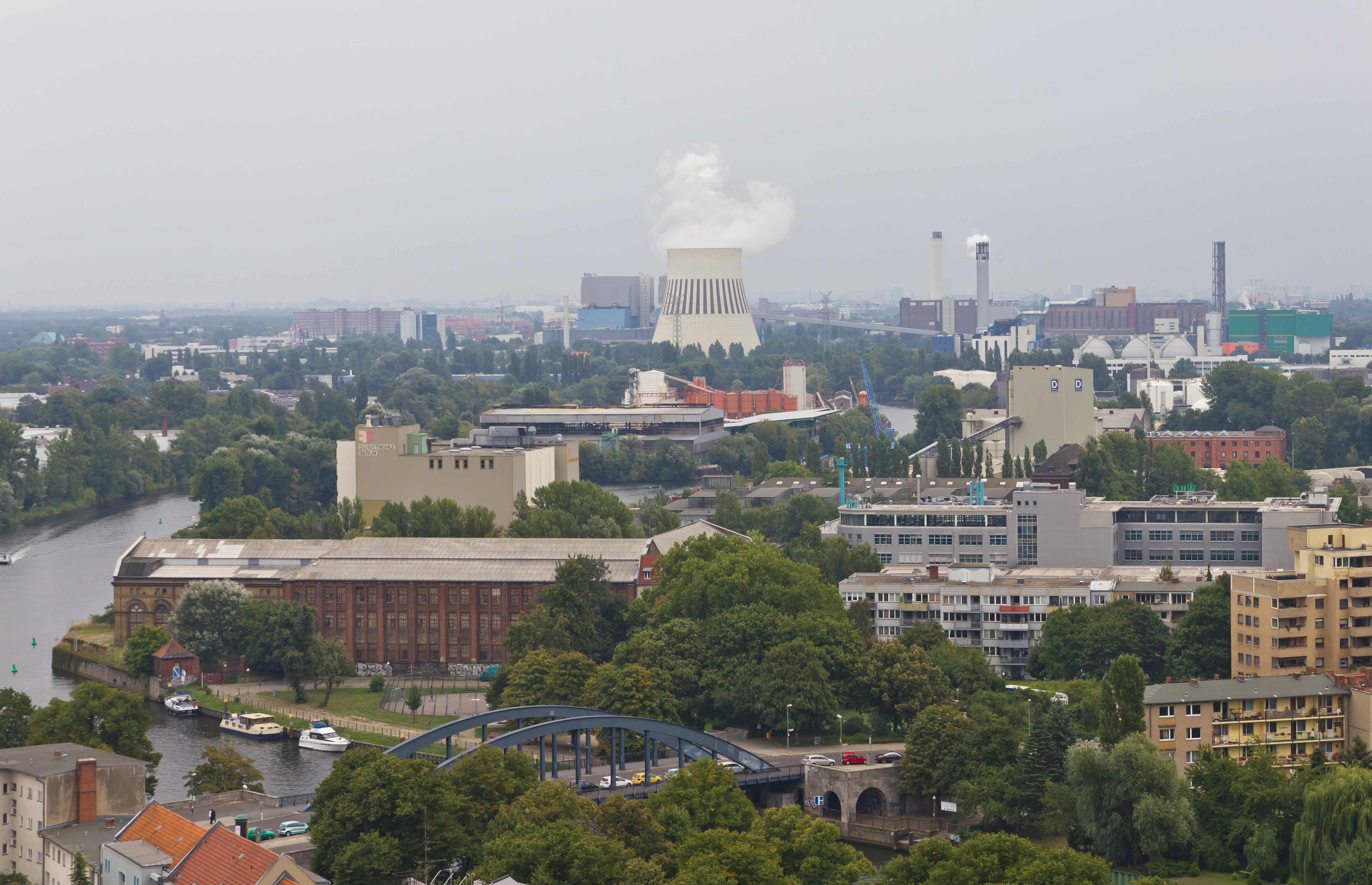 View from the tower of Spandau town hall, Berlin